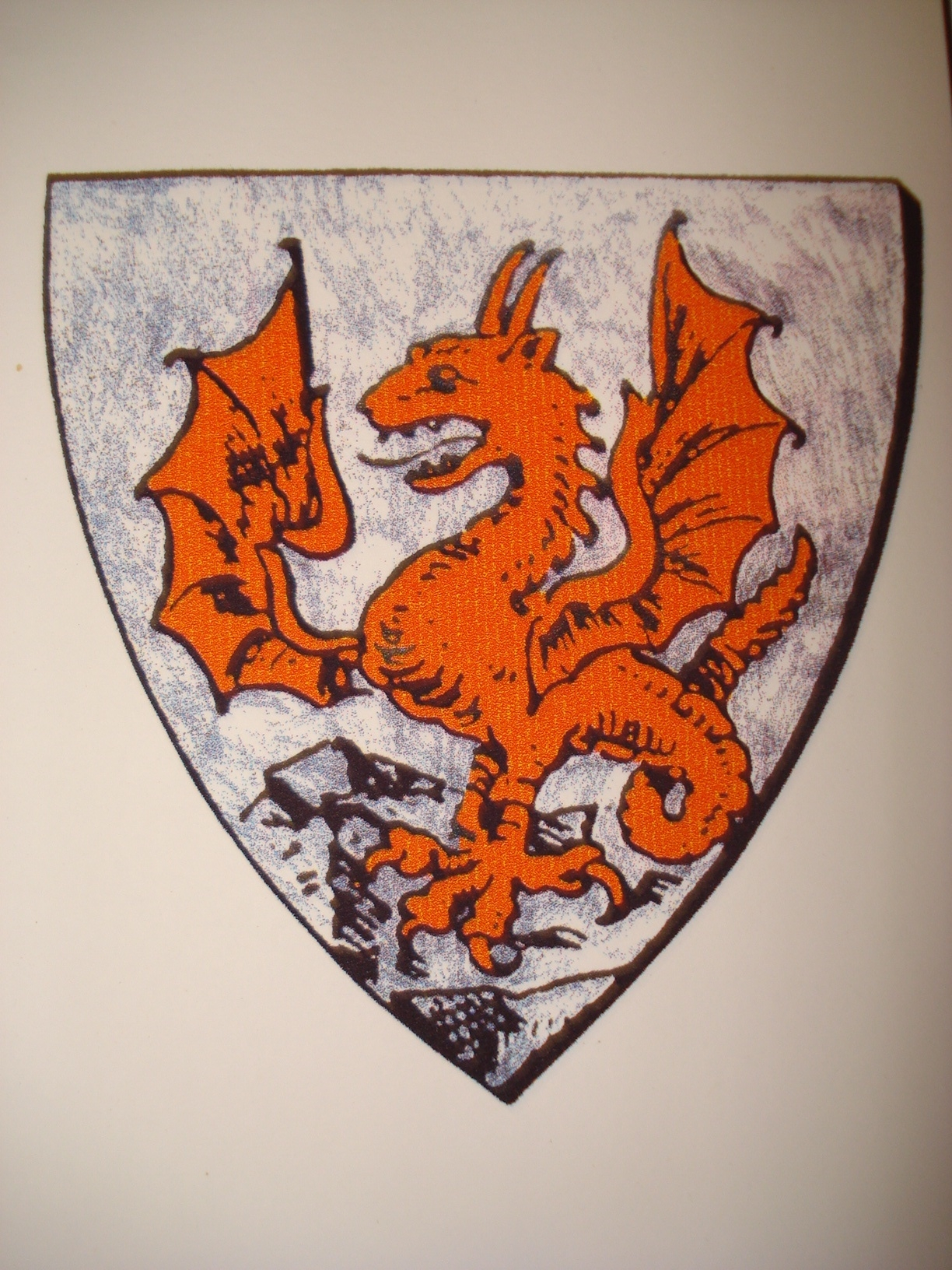 Coat of arms of Lacković (Lackfi) noble family (Croatia)